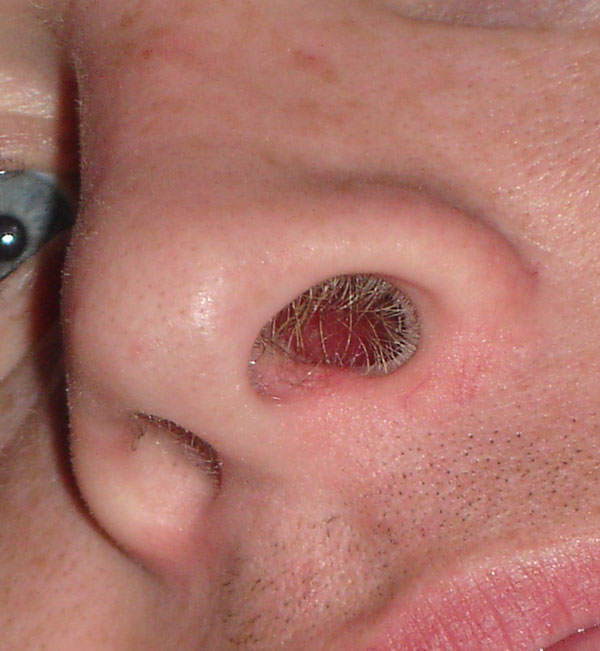 Serendipitous self-portrait capturing upper lip stubble and nose hair. Taken on holiday in Las Vegas, in the late hours of November 22 2005.